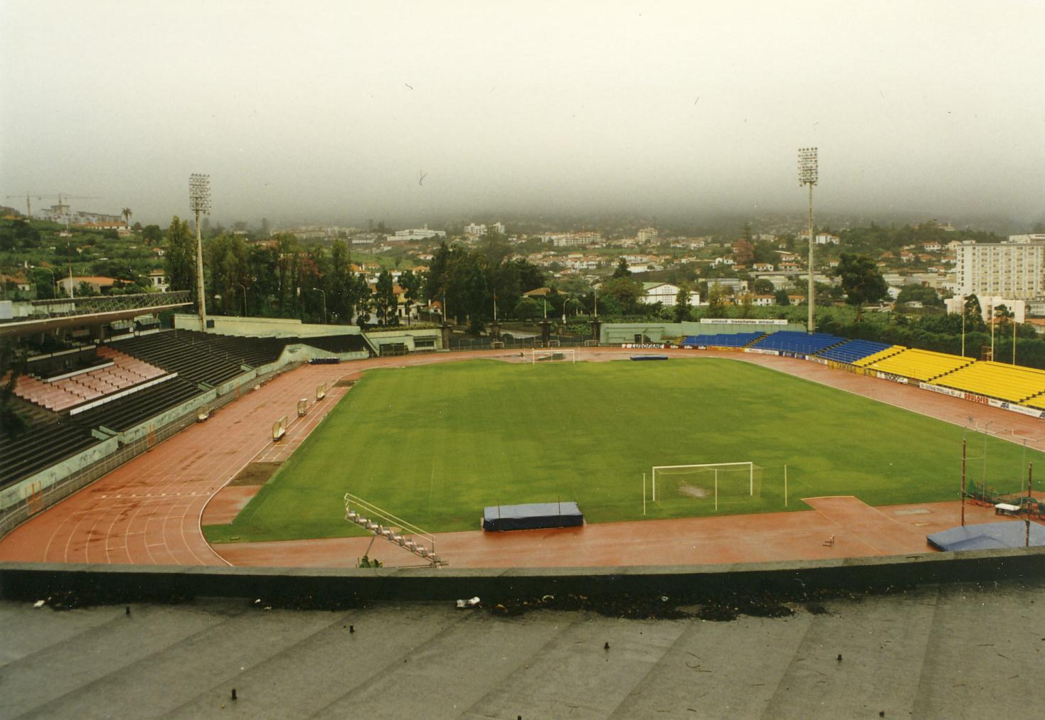 Estádio dos Barreiros Funchal 1997